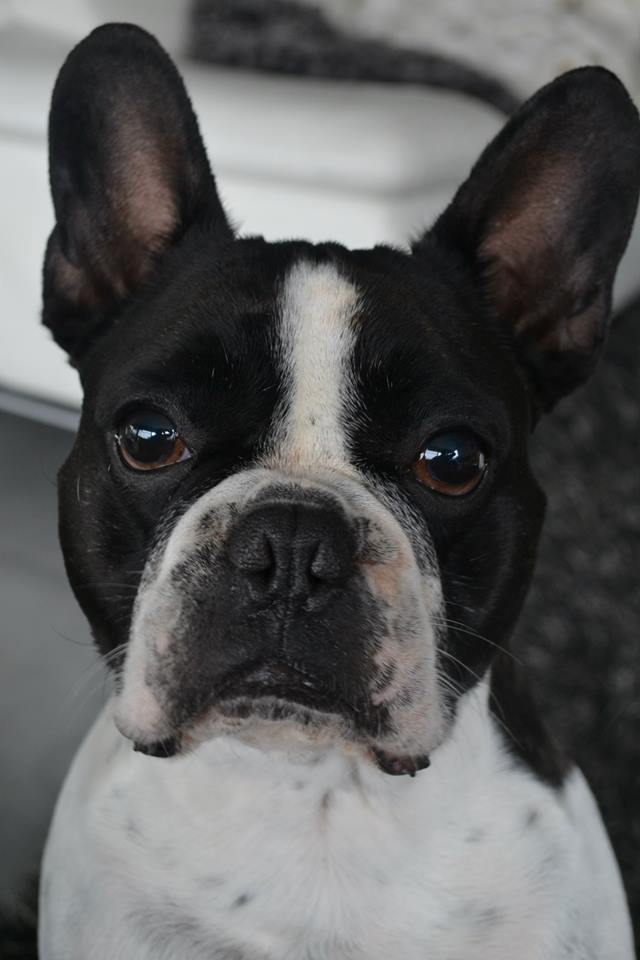 franse buldog